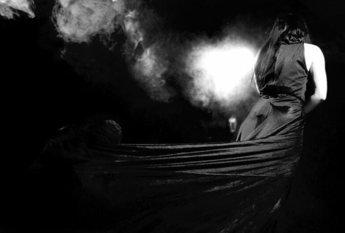 C.F.F. e il Nomade Venerabile live - May 1, 2010